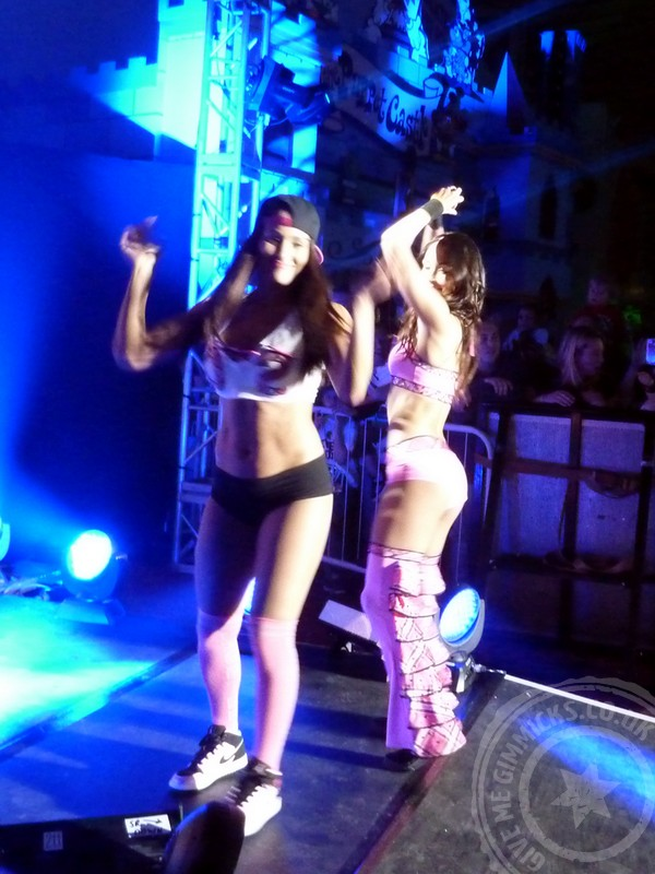 The Bella Twins making their entrance in November 2013 during a WWE live event.